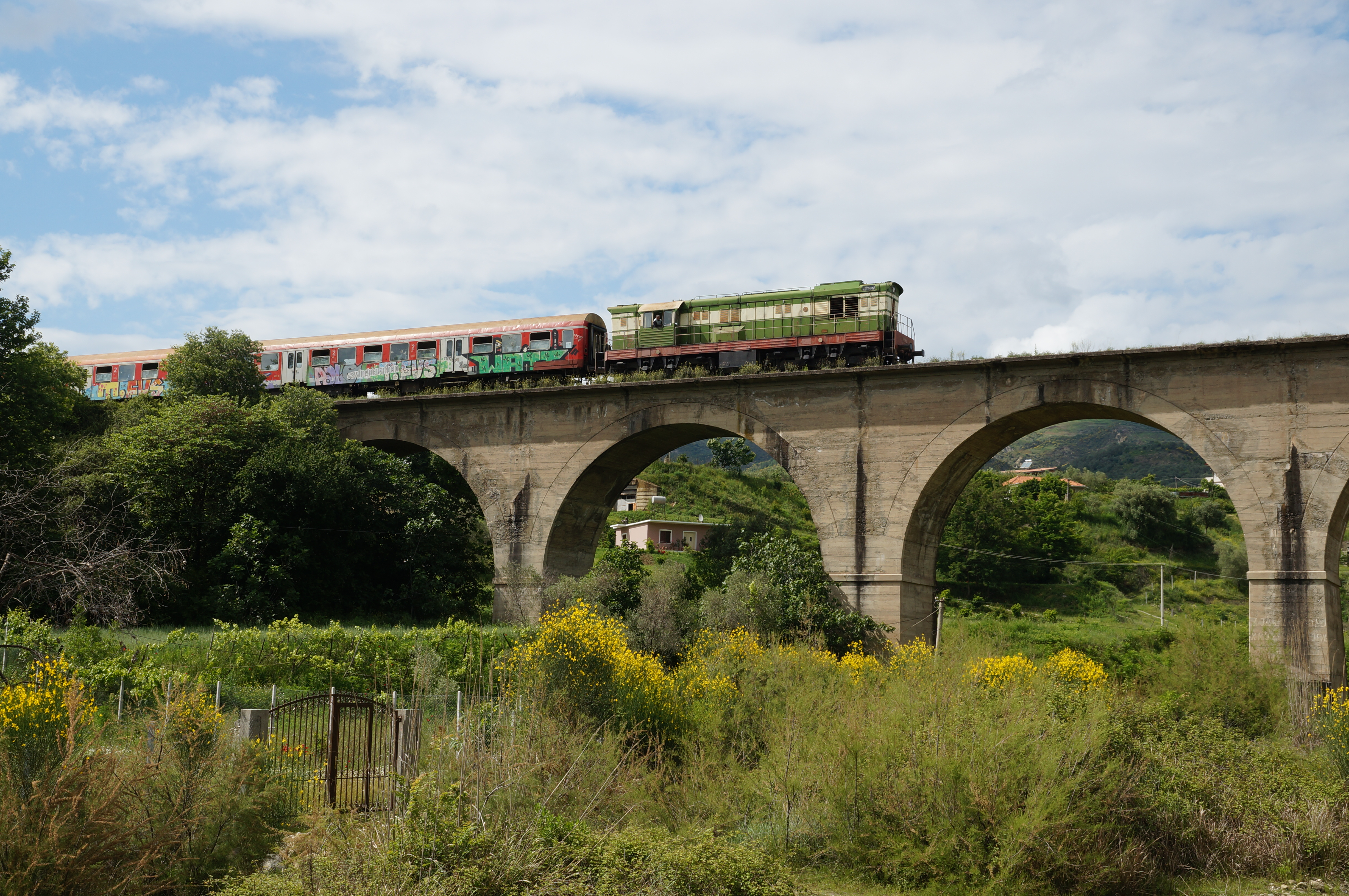 A train on a bridge in Central Albania